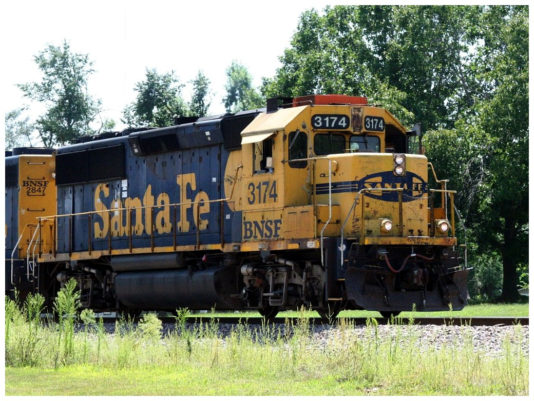 Burlington Northern Santa Fe 3174 EMD GP50